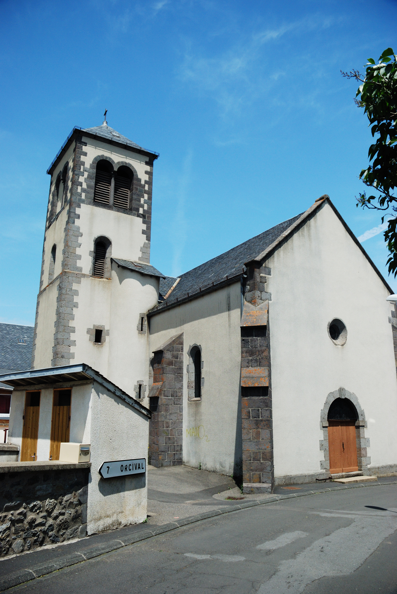 Vernines : church (Puy-de-Dôme, France) Translation in other language is welcome.